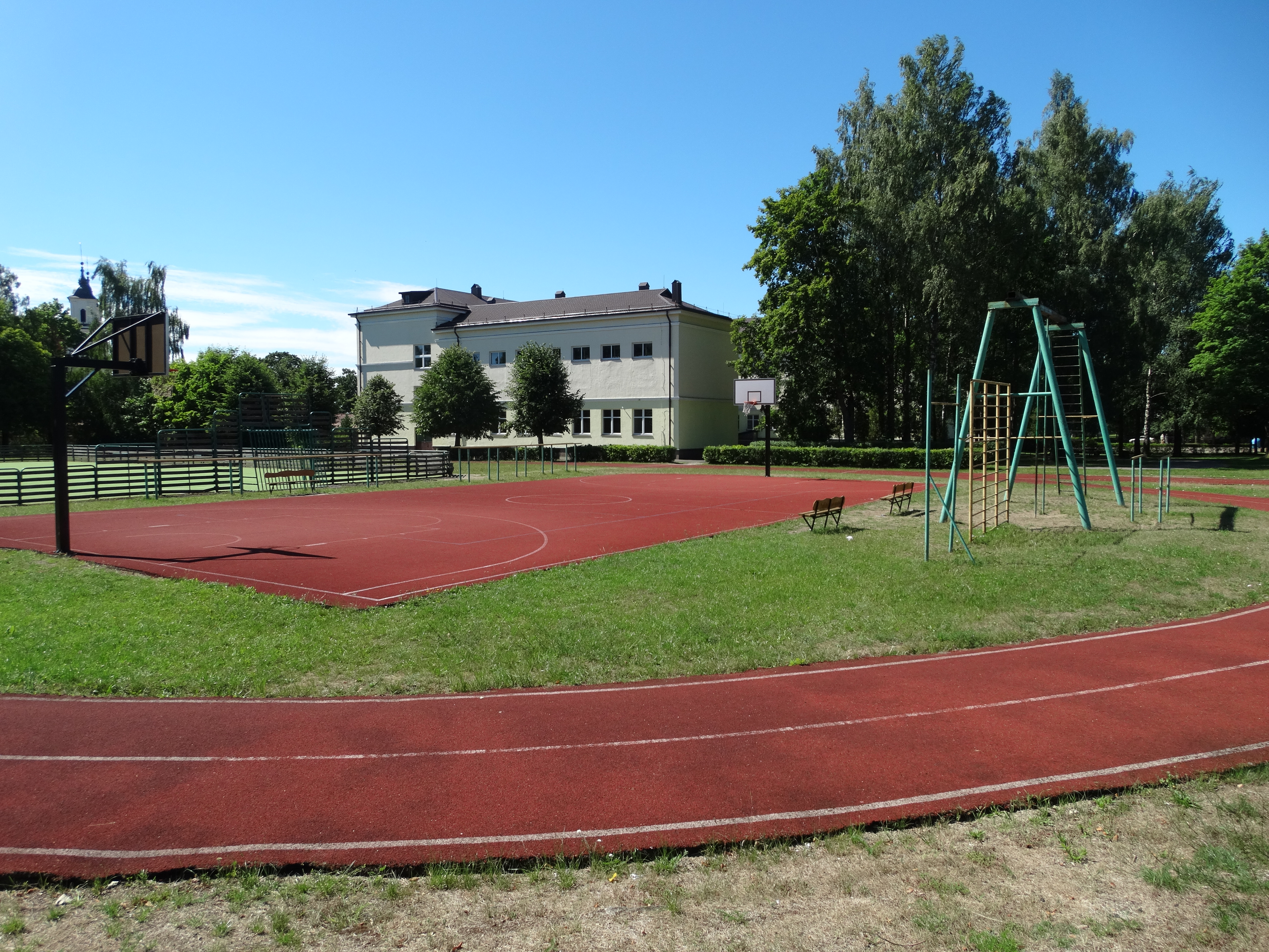 School, Tytuvėnai, Kelmė district, Lithuania